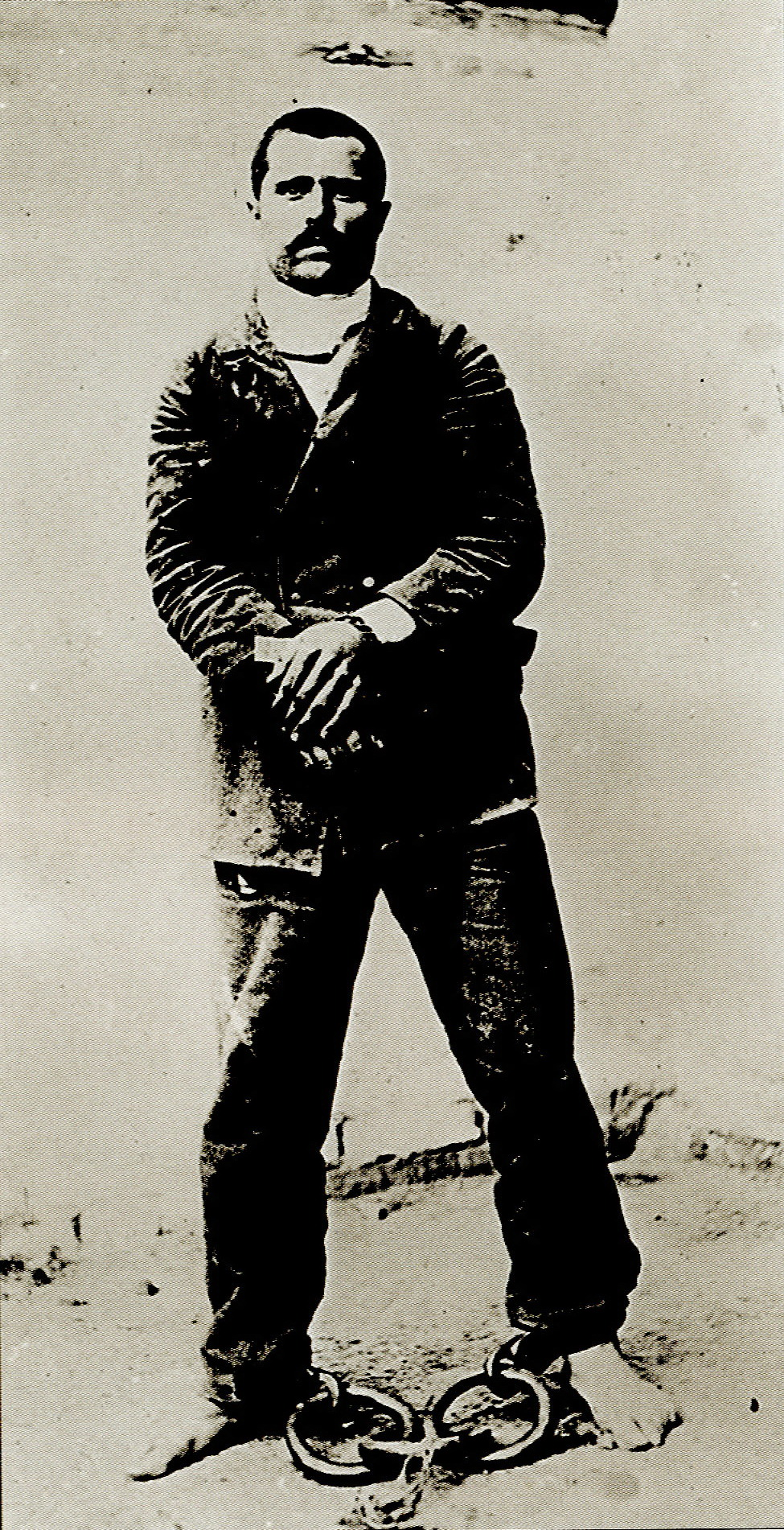 Đura Knežević, the assassin of King Milan